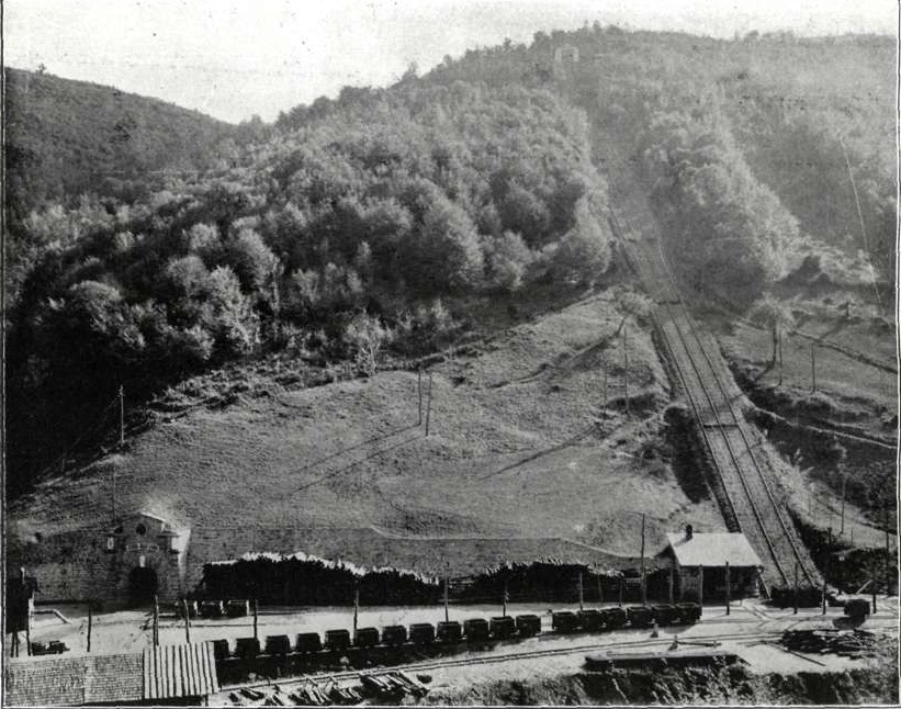 entrance to the gallery and the funicular in Retişoara, before 1906